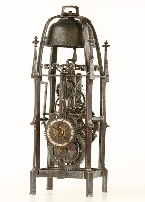 Gothic iron clock with alarm, Central Europe, around 1580, Deutsches Uhrenmuseum, Inv. K-1279